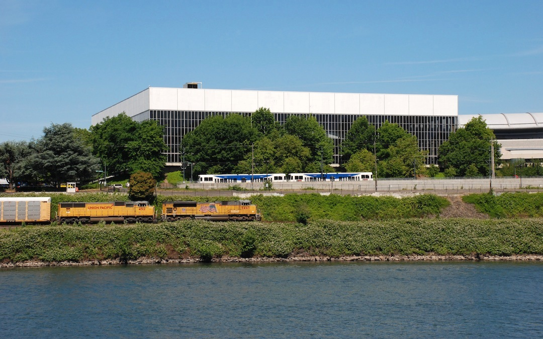 The Veterans Memorial Coliseum (northwest and [primarily] southwest façades), in Portland, Oregon, viewed from across the Willamette River. A southbound Union Pacific freight train and a northbound light rail train on TriMet's MAX Yellow Line are passing. (The UP train is headed by locomotives 8440 and 4512, and the MAX train consists of two Siemens SD660 cars of TriMet's 300-series.) At the far right, the Rose Garden Arena is partially in view.